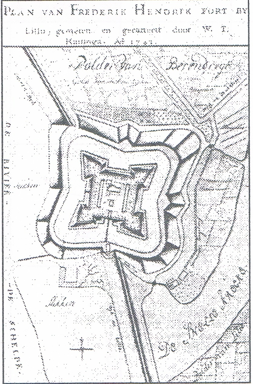 Plan of Fort Frederik-Hendrik in Berendrecht in 1742